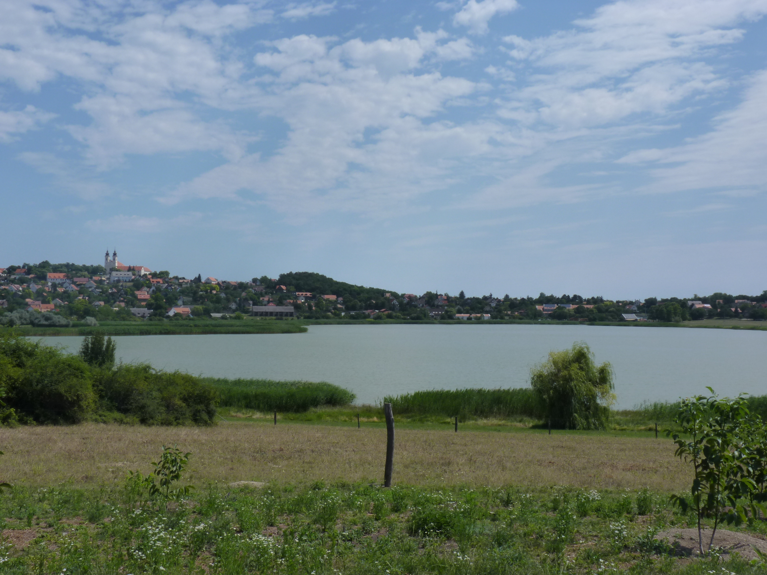 View of Belső-tó